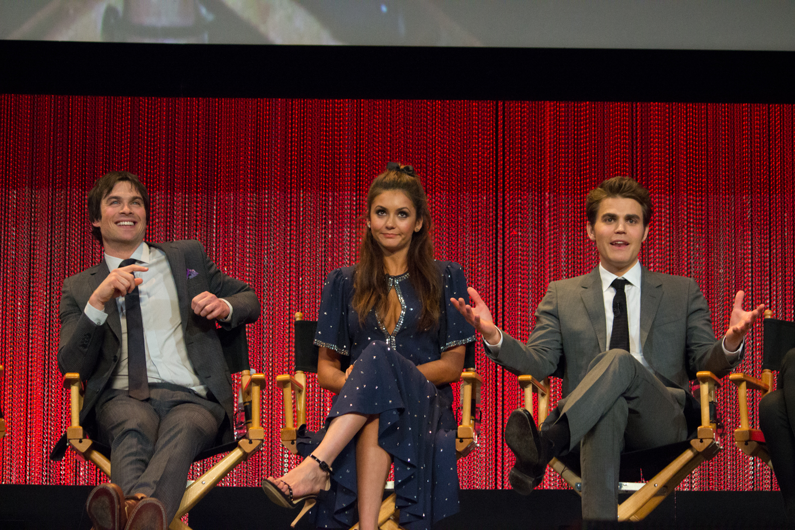 Three of the cast members of "The Vampire Diaries" at The Paley Center For Media's PaleyFest 2014. From left: Ian Somerhalder, Nina Dobrev & Paul Wesley